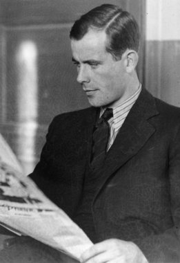 Arne Skouen, Norwegian journalist and film maker